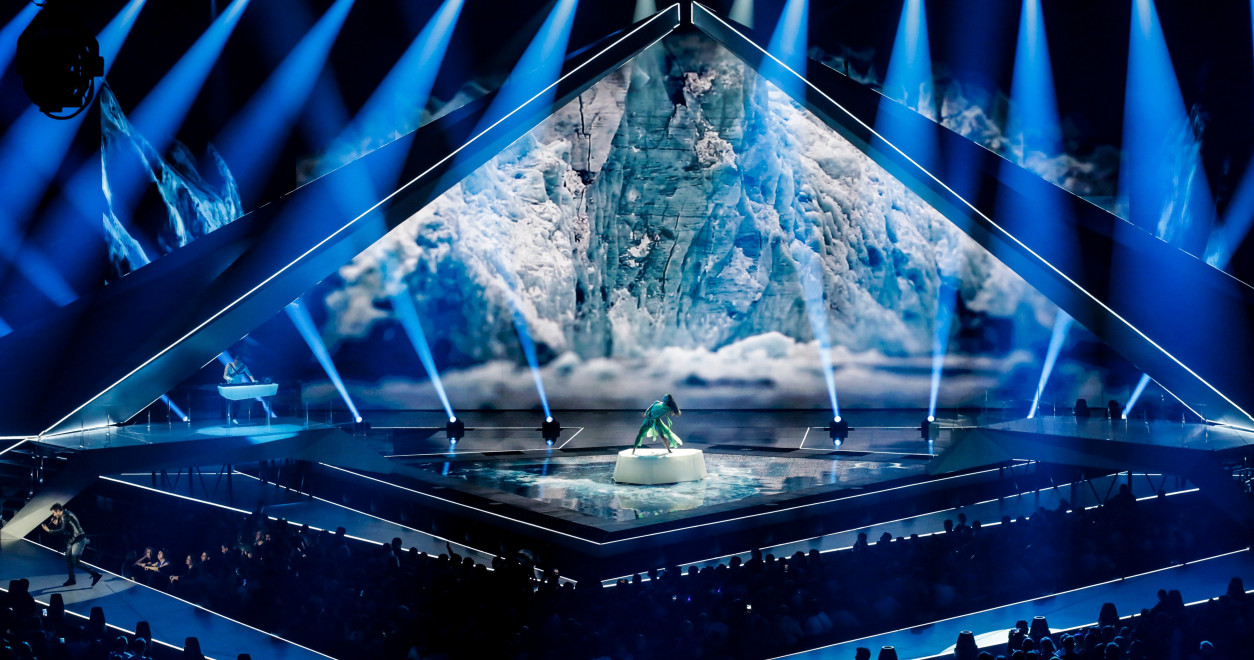 Eurovision Song Contest 2019: The stage during the Finnish performance